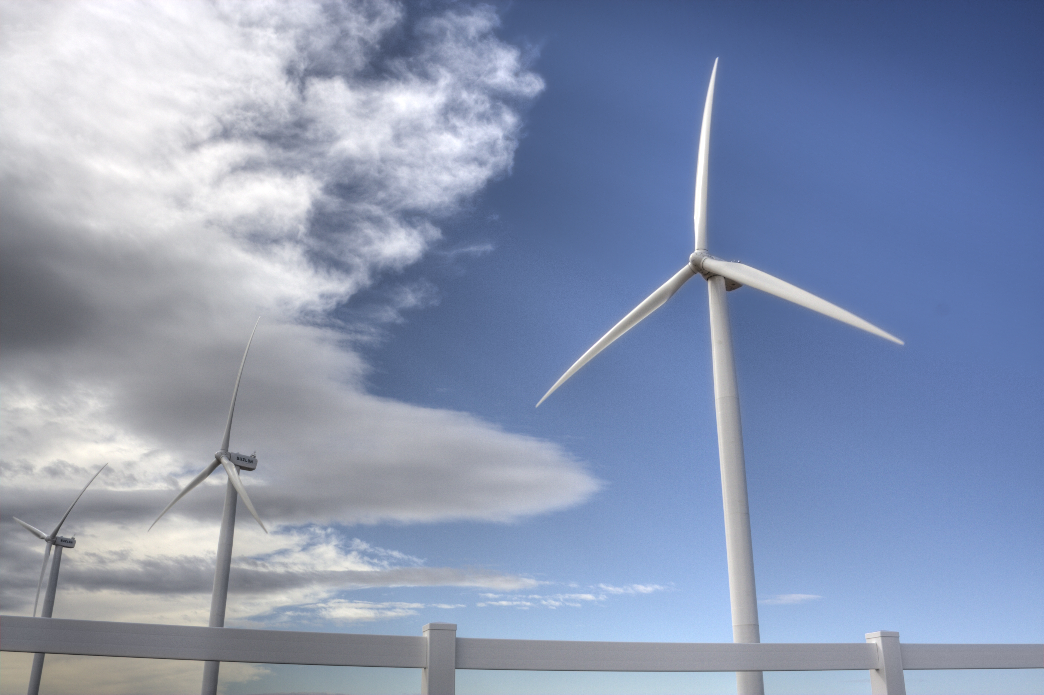 Wind turbines on blue sky with clouds